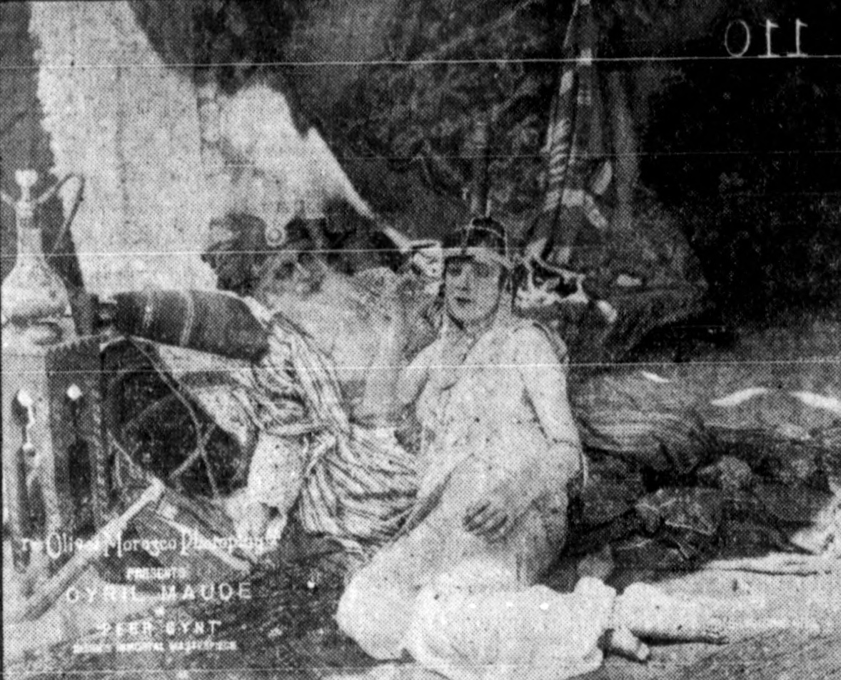 Peer Gynt is a surviving 1915 American fantasy silent film directed by Oscar Apfel and Raoul Walsh and written by Oscar Apfel and Henrik Ibsen.